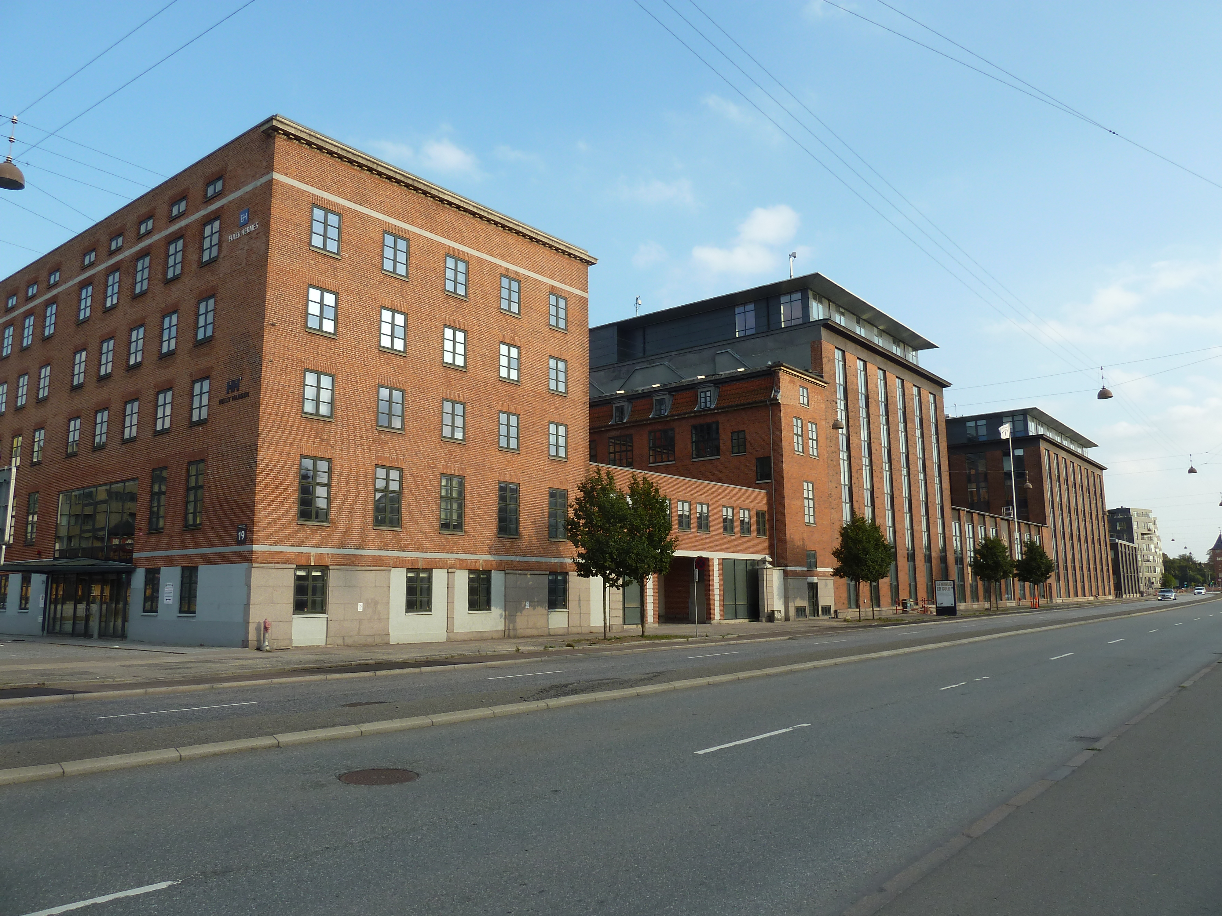 The Nordisk Fjer building at Amerika Plads in Copenhagen, Denmark